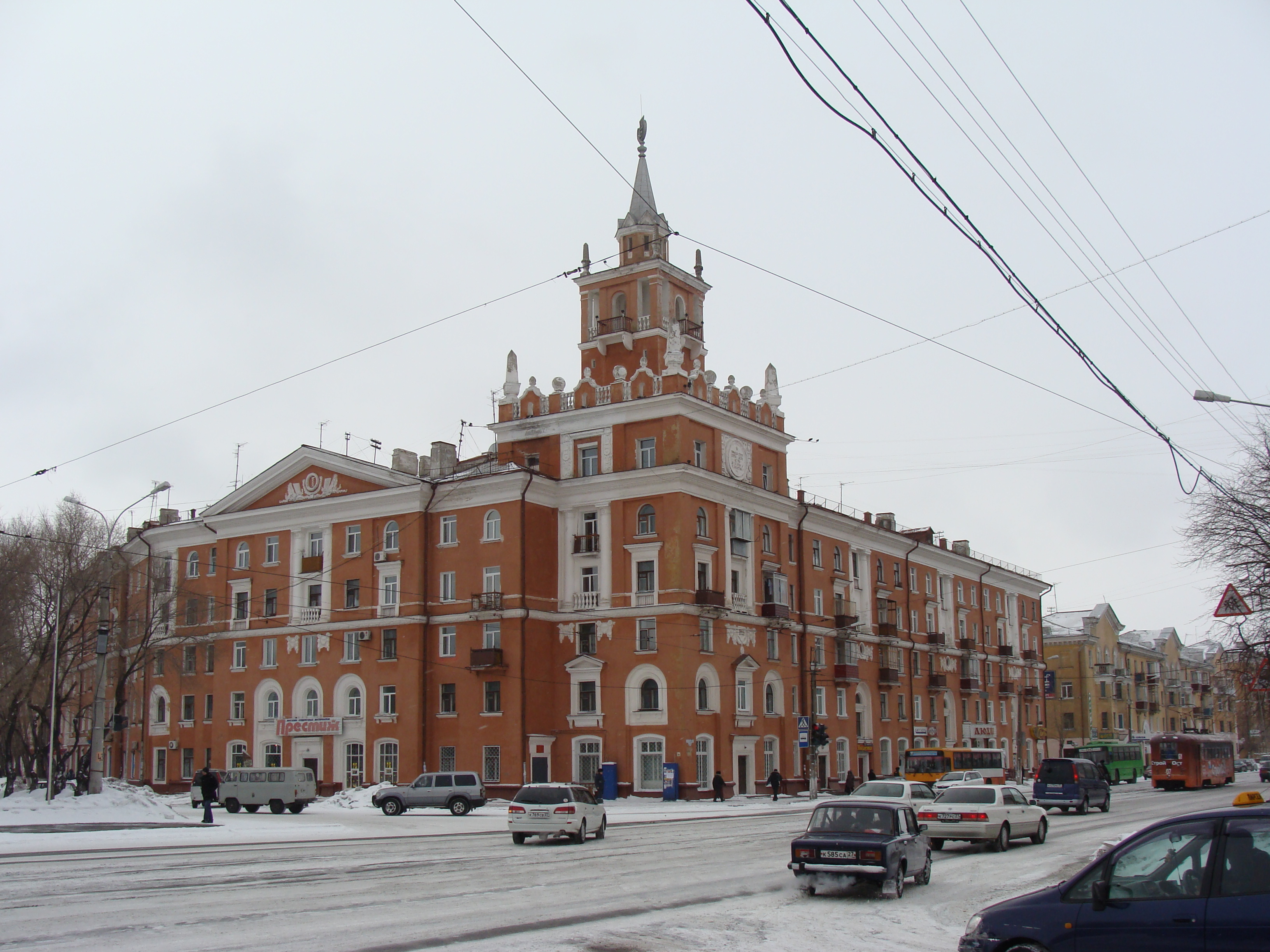 Building at Lenin Square, Komsomolsk-on-Amur